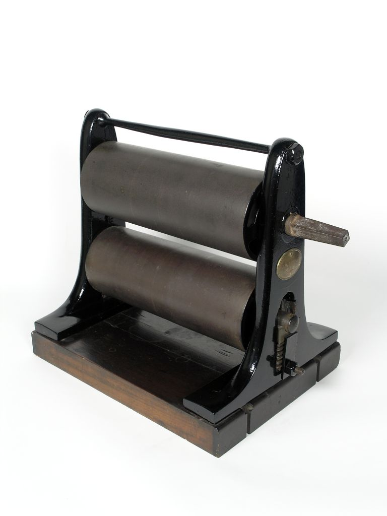 Copy press on wooden stand with iron supports and two iron rollers. Brass plaque at one side is marked 'J Watt & Co, Office No 4120'. Made in 1815, to James Watt's original design of 1780. Editing Undertaken: Auto Levels, Auto Contrast, Unsharp Mask